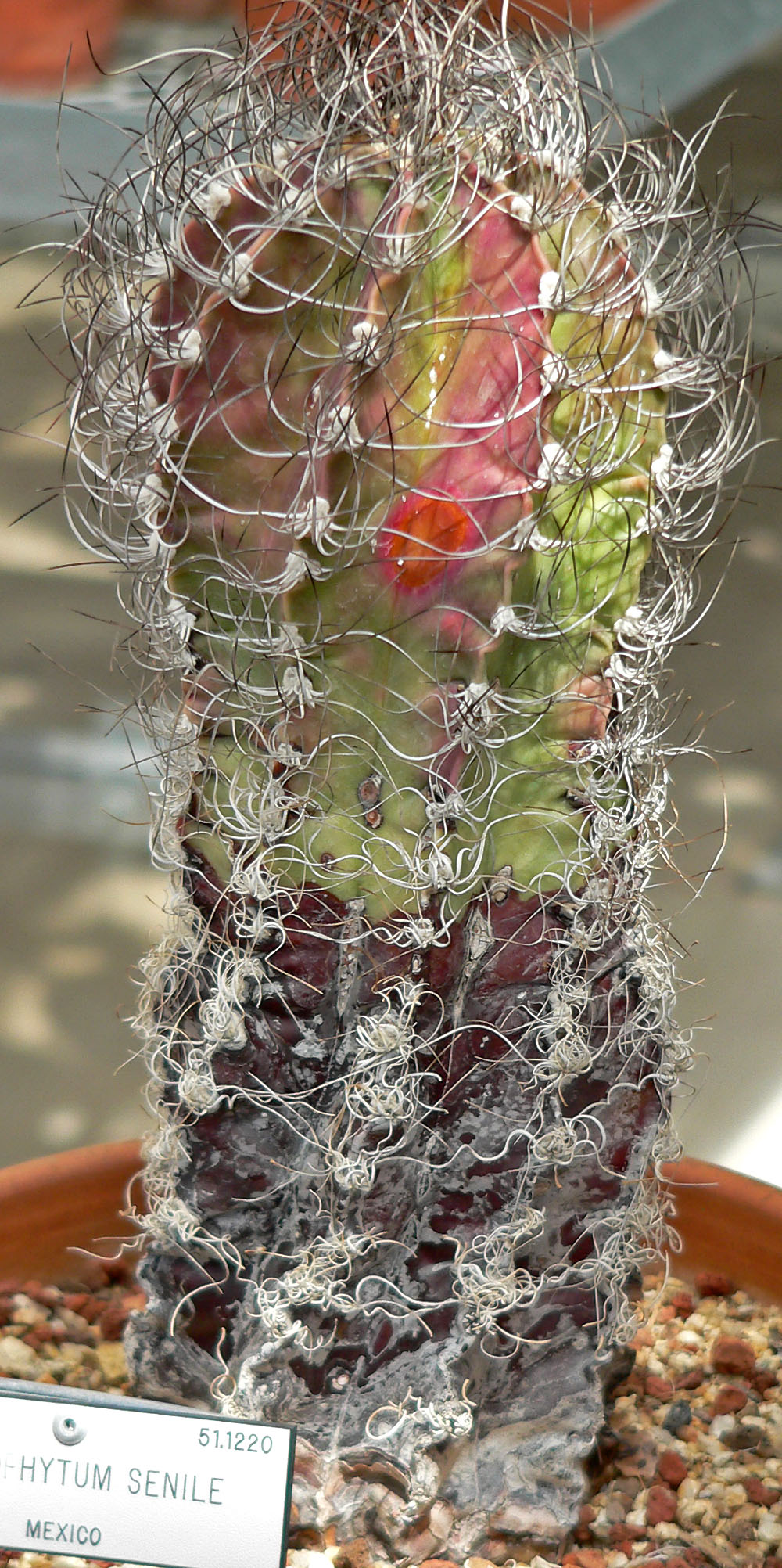 Astrophytum capricorne at the University of California Botanical Garden, Berkeley, California